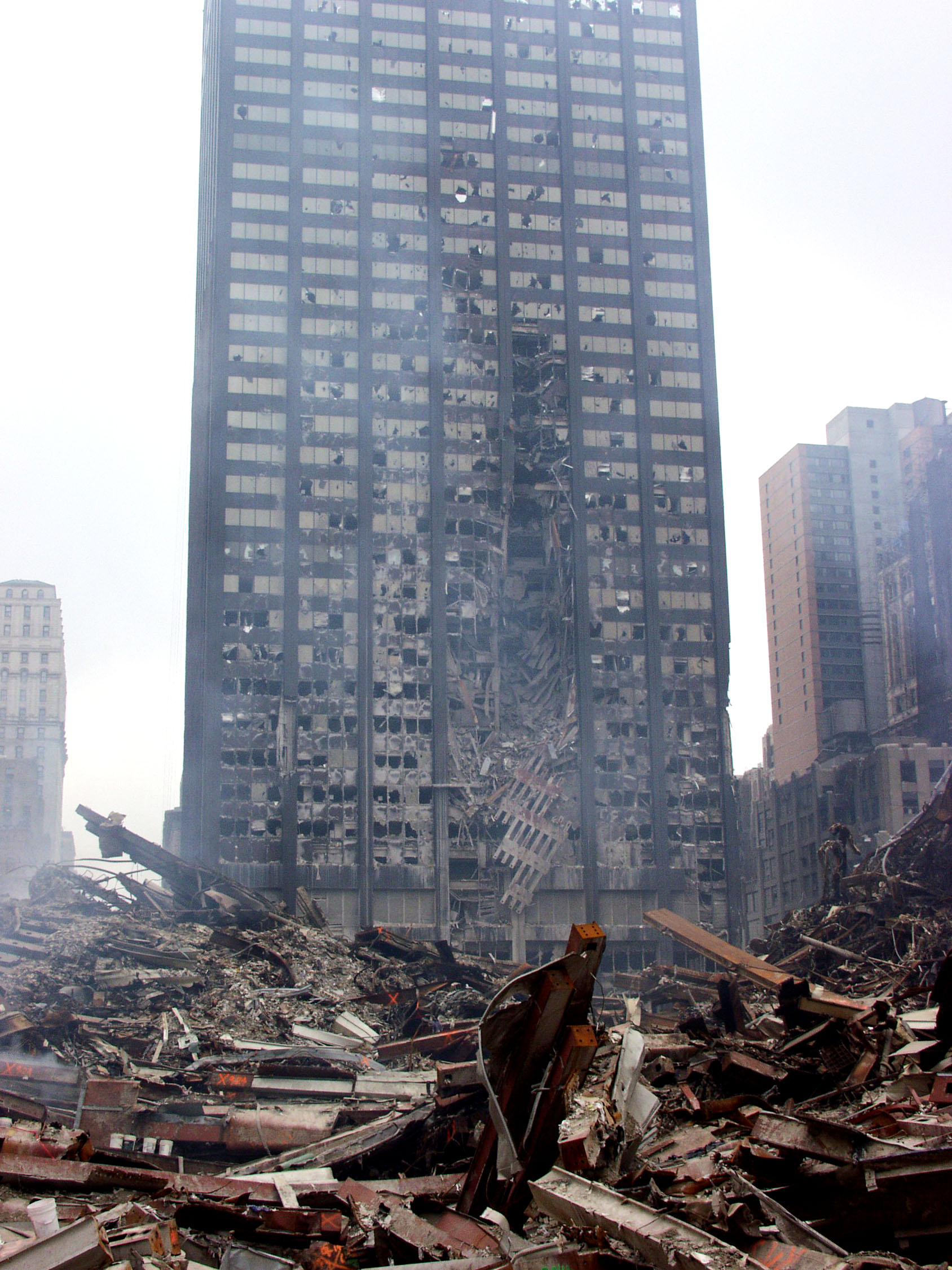 Deutsche Bank Building damaged by falling debris. Original description by FEMA: "New York, NY, September 24, 2001 -- This building adjoining the World Trade Center sustained considerable damage during the collapse. Photo by Michael Rieger/ FEMA News Photo"